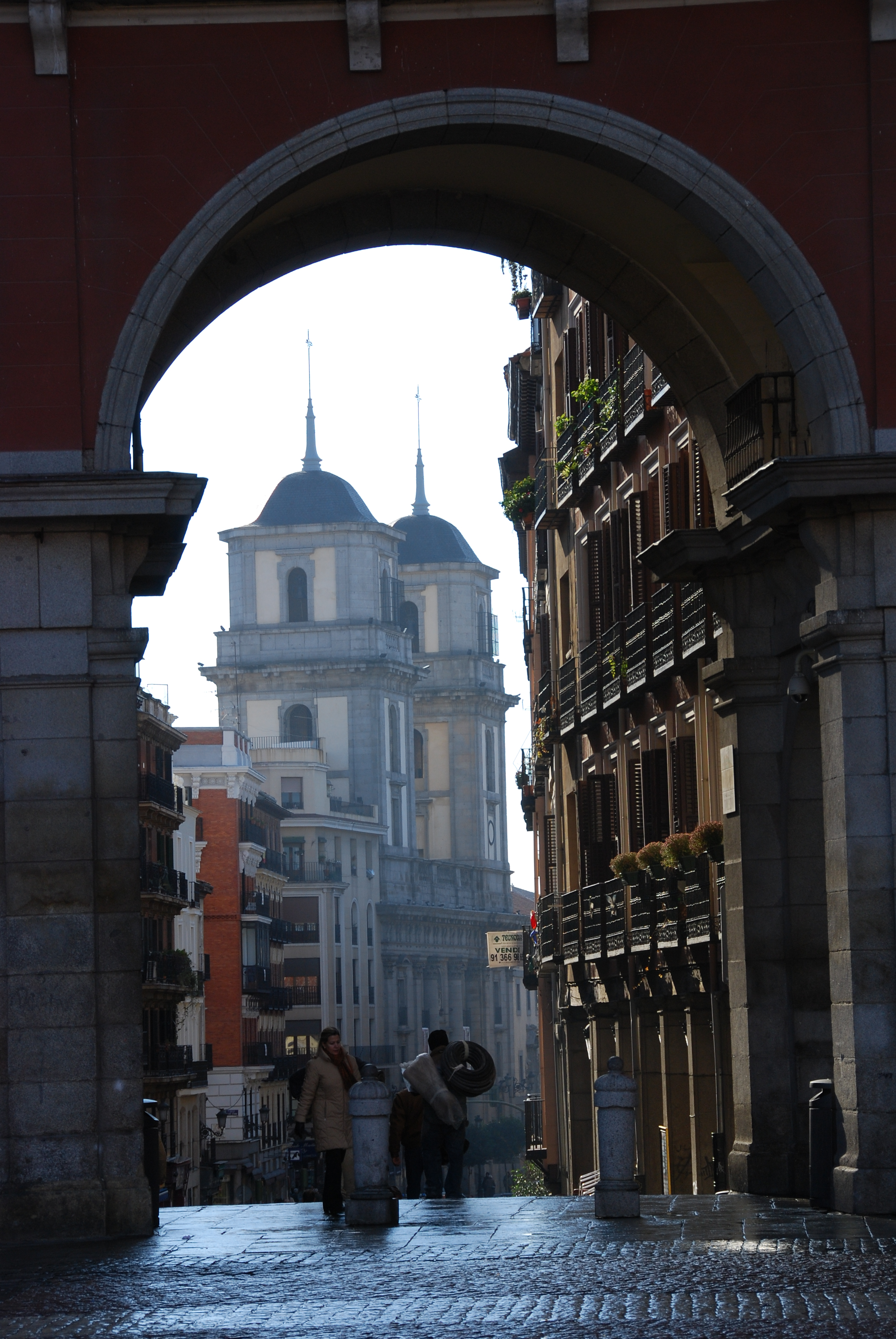 View of the Colegiata de San Isidro (Collegiate Church of St. Isidore) in Madrid (Spain) from one of the entrances of the Plaza Mayor (square).